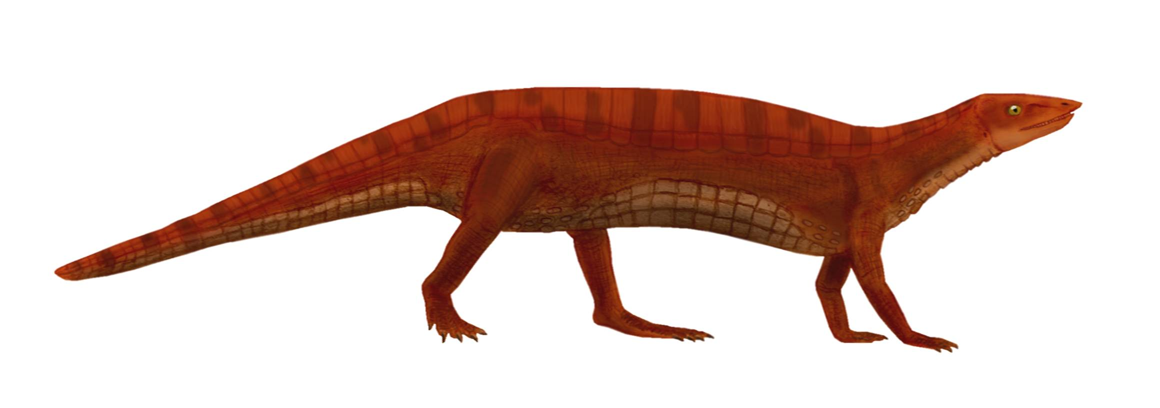 Life restoration of Neoaetosauroides engaeus. Based on figure 3 of "The postcranial skeleton of Neoaetosauroides (Archosauria: Aetosauria) from the Upper Triassic of west-central Argentina" by J. B. Desojo and A. M. Báez Ameghiniana 42(1).